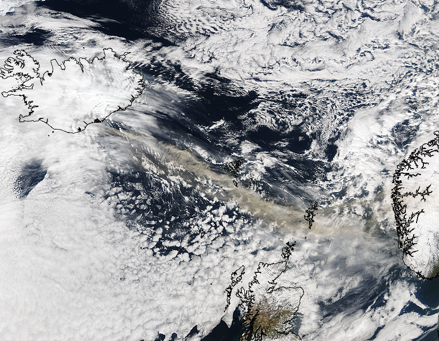 Ash plume from Eyjafjallajökull volcano over the North Atlantic, April 15, 2010, 13:30 UTC.